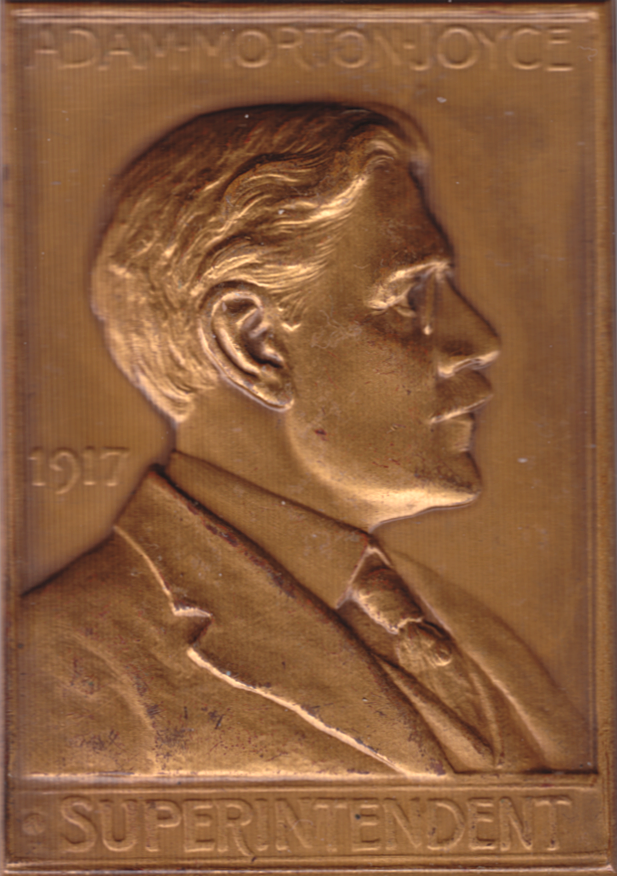 United States Mint plaquette honoring Adam Morton Joyce. A look in the 2011 edition of Coin World Almanac, page 140 reveals that Adam M. Joyce was Superintendent of the Philadelphia Mint from 1914 to 1921. This shows that it was by Morgan. Morgan was appointed Engraver (before he was assistant engraver) after Charles Barber's death on February 18, 1917, this was most likely done after his promotion as the Mint was very busy in early 1917 because of the problems with the Standing Liberty quarter. Not to mention shorthanded; the replacement for Barber on the engraving staff, John R. Sinnock, was not hired until late in the year. Scanned from the original medal by Wehwalt on October 19, 2011.